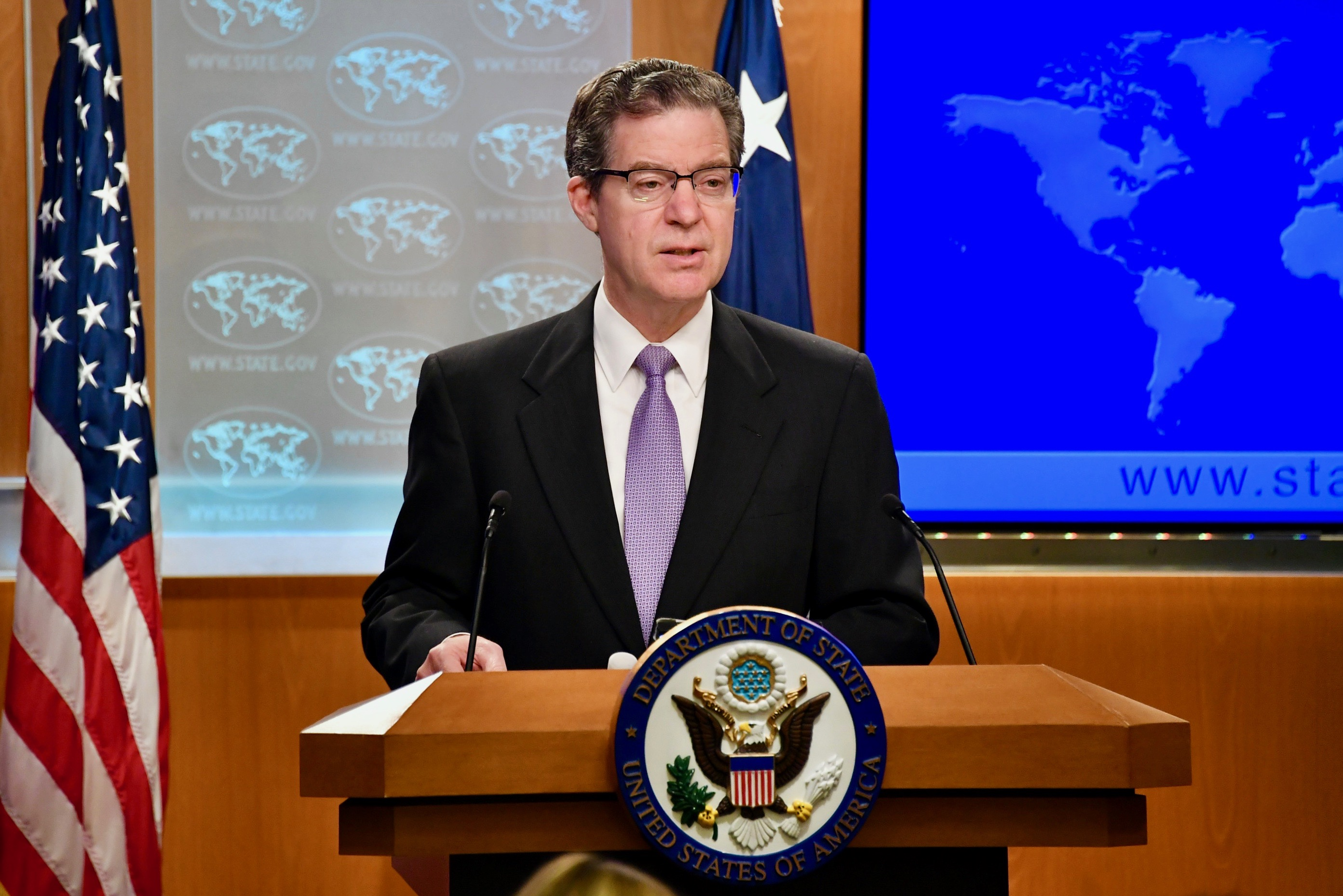 Ambassador at Large for International Religious Freedom Sam Brownback delivers remarks on the 2018 International Religious Freedom Annual Report in the Press Briefing Room at the U.S. Department of State in Washington, D.C., June 21, 2019. [State Department photo by Michael Gross/ Public Domain]